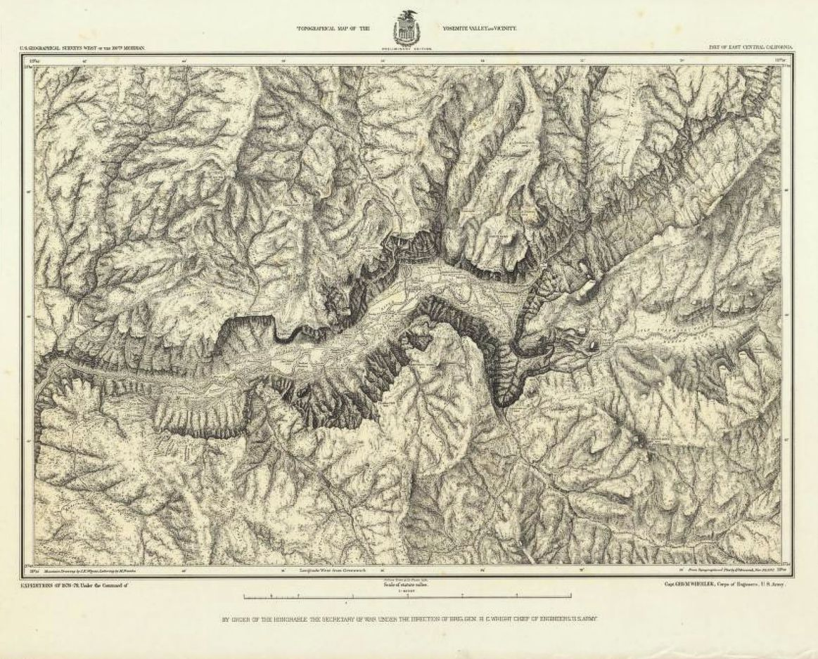 "Topographical Map Of The Yosemite Valley And Vicinity", Part Of East Central California. Mountain Drawing by J.E. Weyss; Lettering by J. Franke. Julius Bien & Co. Photo. lith. Expeditions Of 1878-79, Under the Command of Capt. Geo. M. Wheeler, Corps of Engineers, U.S. Army. U.S. Geographical Surveys West Of The 100th Meridian.Author: Wheeler, 1883. This first detailed survey of Yosemite Valley shows interesting cultural features in the valley, many of which no longer exist. The steep valley cliffs are shown with a map style of the 19th century called hachuring - closely spaced lines to indicate slope. It was published separately and as part of the Topographical Atlas ... West of the 100th Meridian of Longitude also known as the Wheeler Survey, one of the most important of the U.S. Army survey's of the American West in the late 19th century.